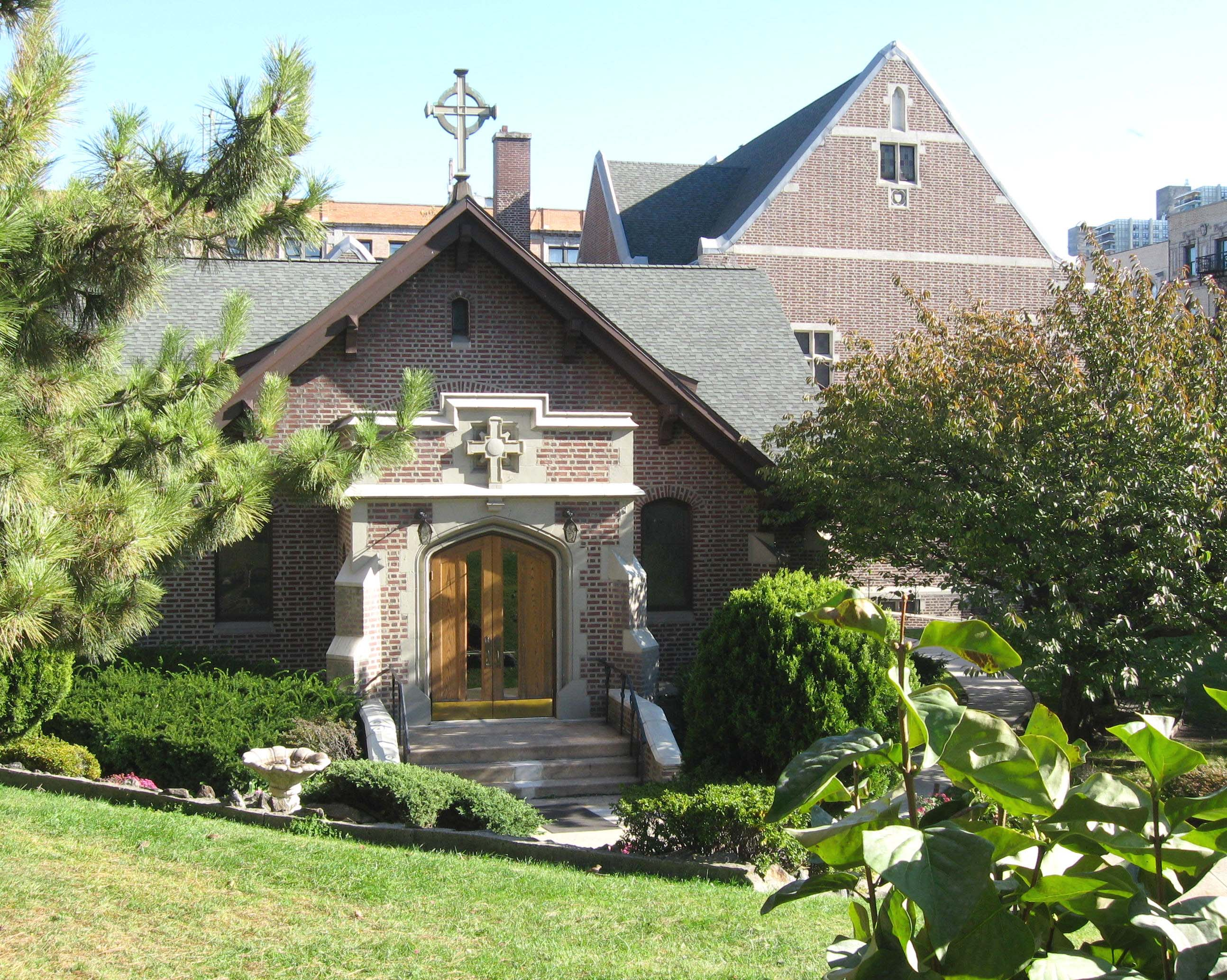 Looking southeast at Fort Washington Collegiate Church on a sunny midday